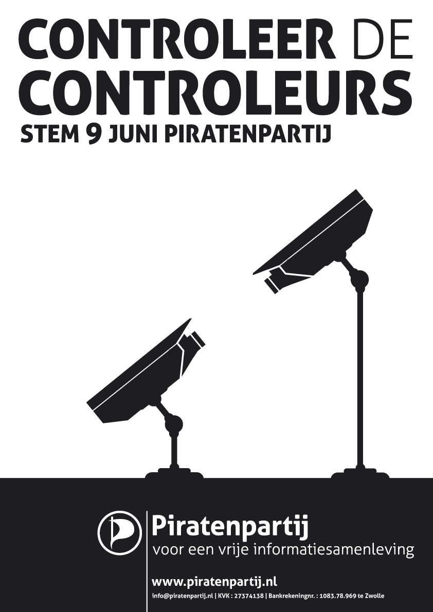 Poster used in the 2010 general elections by the Dutch Pirate Party